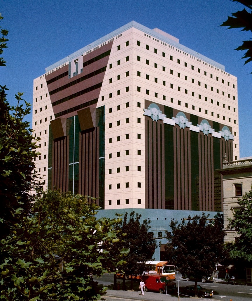 The Portland Building, in Portland, Oregon, in August 1982, about eight weeks before it opened. The building was designed by Michael Graves. This photo was taken from near the intersection of 6th & Jefferson, looking across a surface parking lot which soon after this was replaced by the PacWest Center, making this view of the Portland Building no longer possible.